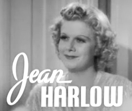 Cropped screenshot of Jean Harlow from the trailer for the film Libeled Lady (1936).